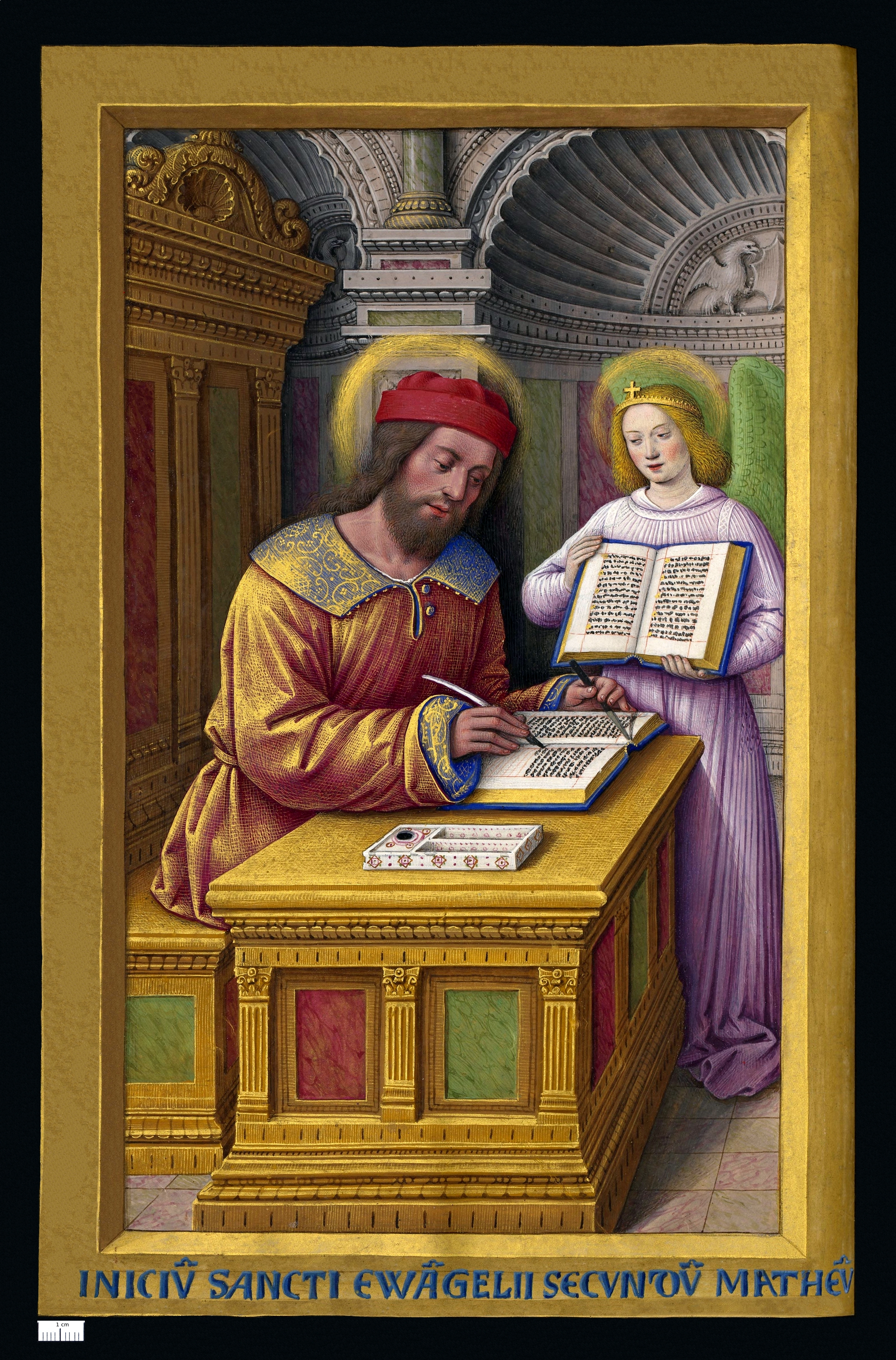 Matthew the Evangelist, miniature from the Grandes Heures of Anne of Brittany, Queen consort of France (1477-1514).